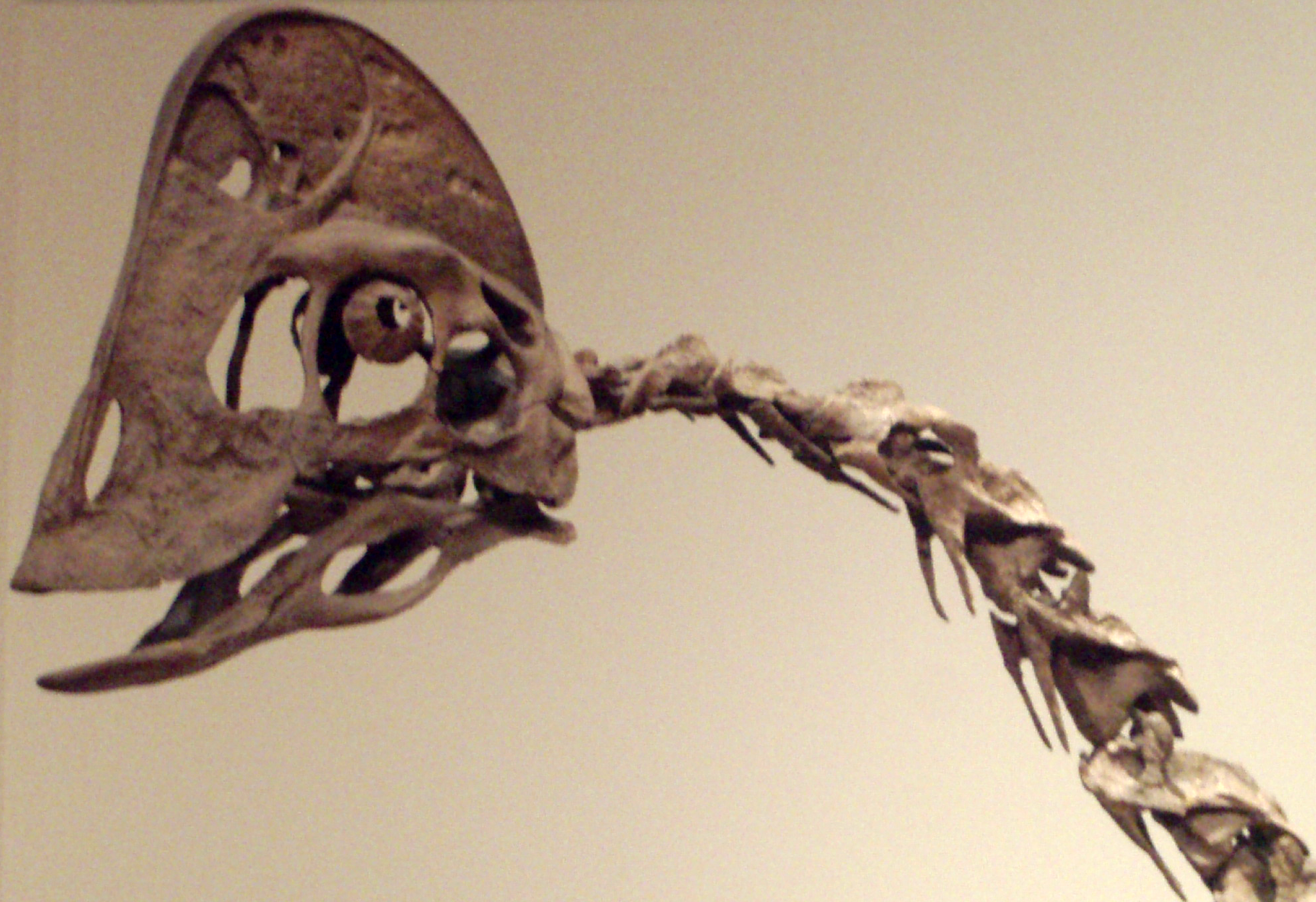 Close-up of the head and neck of Anzu wyliei (previously labelled as a specimen of Chirostenotes), on display at the Royal Ontario Museum, Toronto.